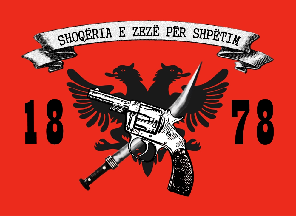 Logo of the society